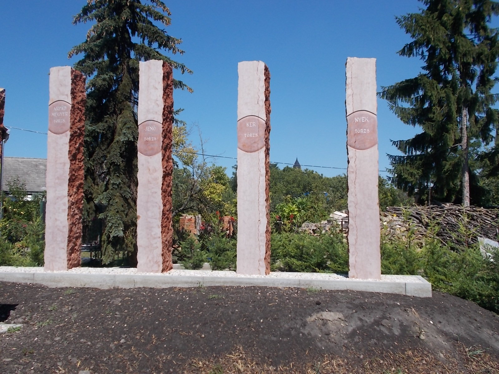 Memorial of the Siege of Bratislava (907), /2017 works/. - Iskola lane and Temető Street cnr., Lébény, Győr-Moson-Sopron County, Hungary.